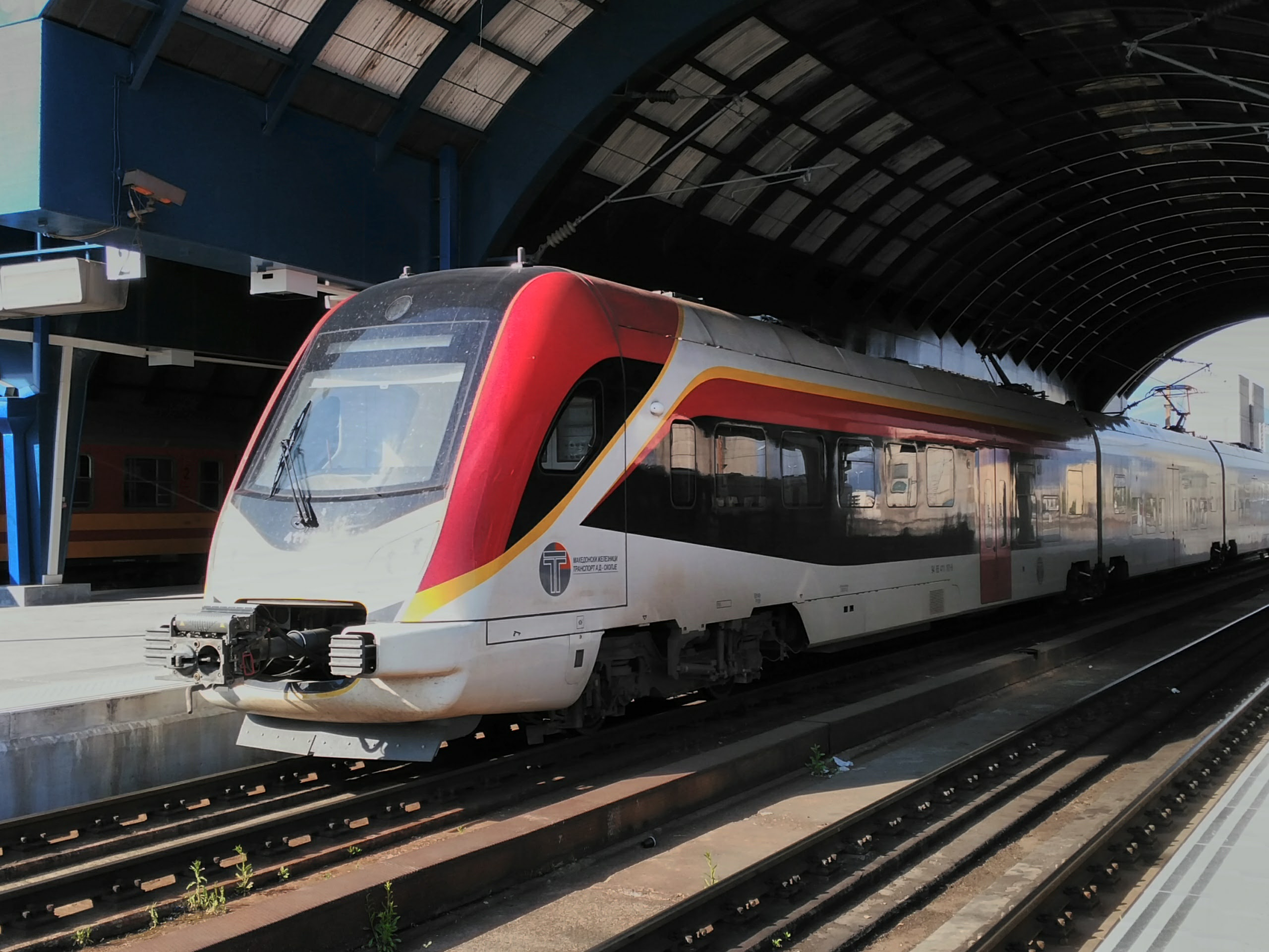 DMU MŽ 411 at Skopje train station